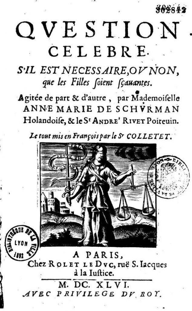 Anne Marie de Schurman: Question celebre. S'il est nécessaire, ou non, que les filles soient sçavantes, traduct. Colletet, Paris,1646